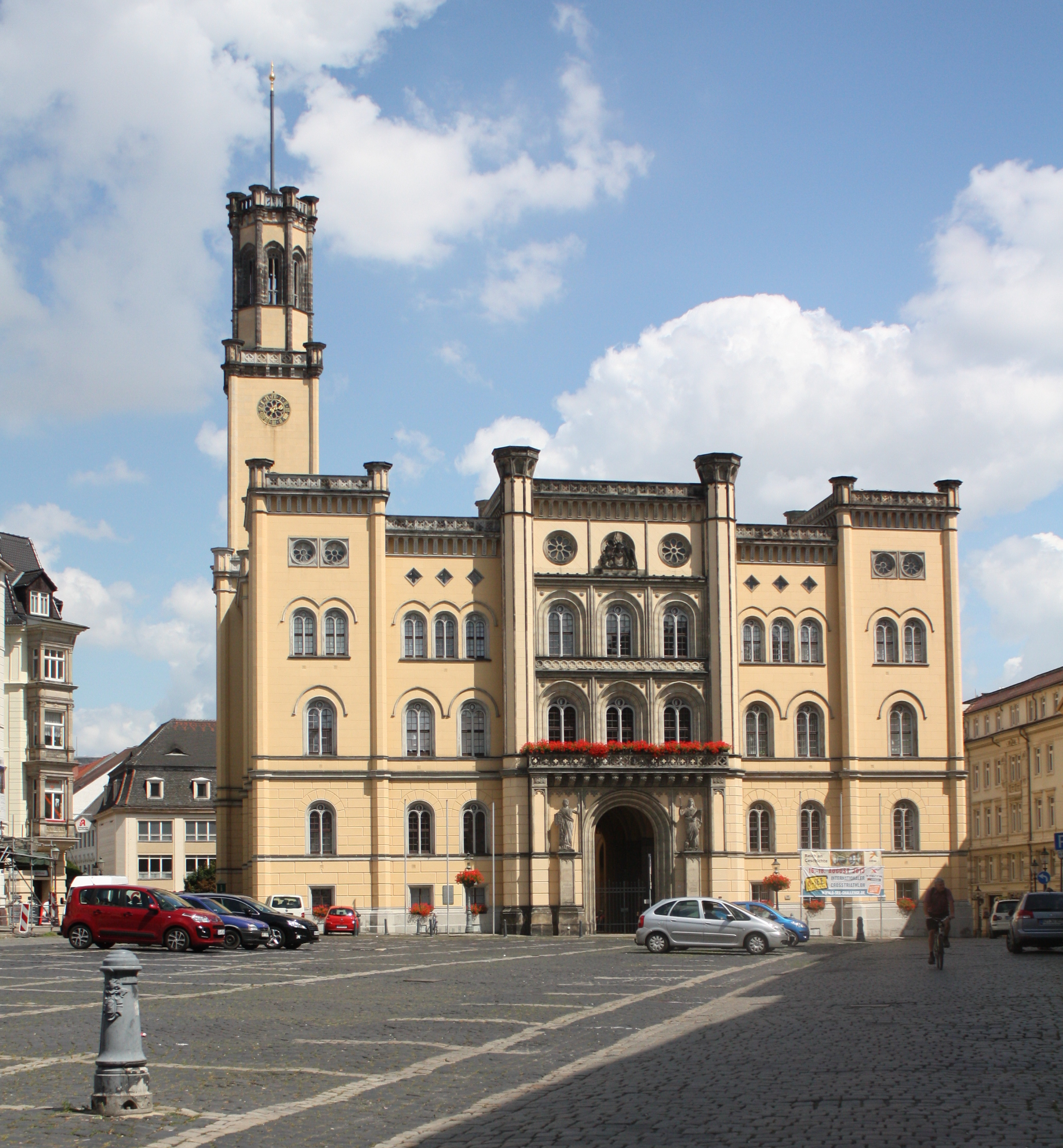 Zittau, Town Hall in Markt